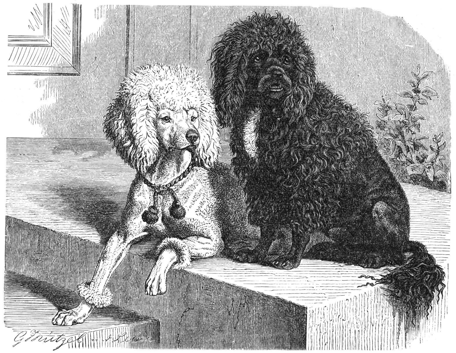 Poodle. 1/10 natural size. Size: 5.3 x 4.1 in²